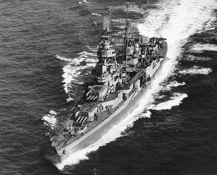 The U.S. Navy heavy cruiser USS Augusta (CA-31) steaming off Portland, Maine (USA), on 9 May 1945.